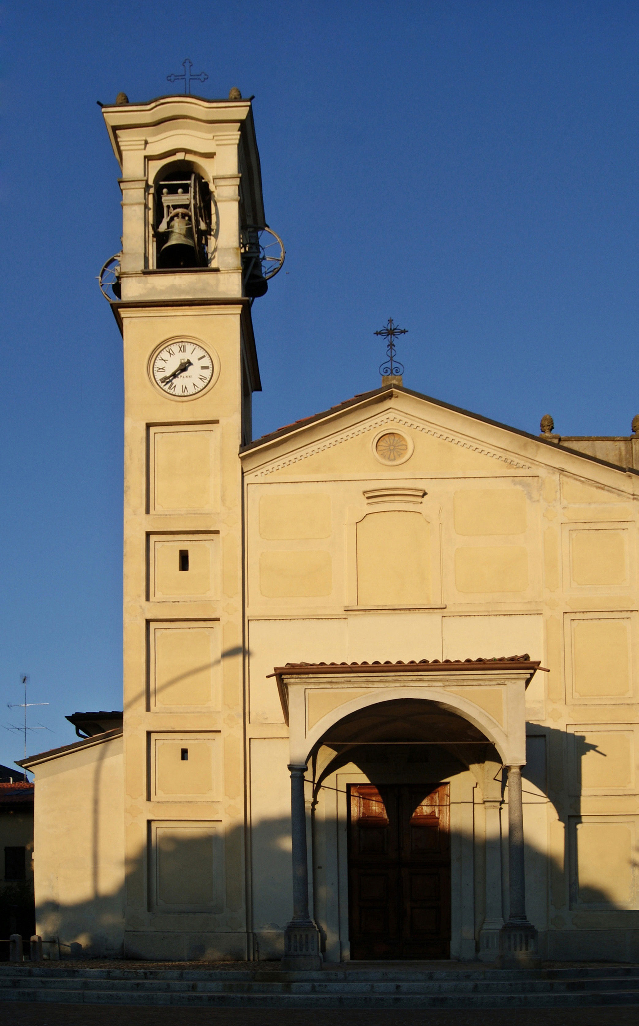 S. Desiderio